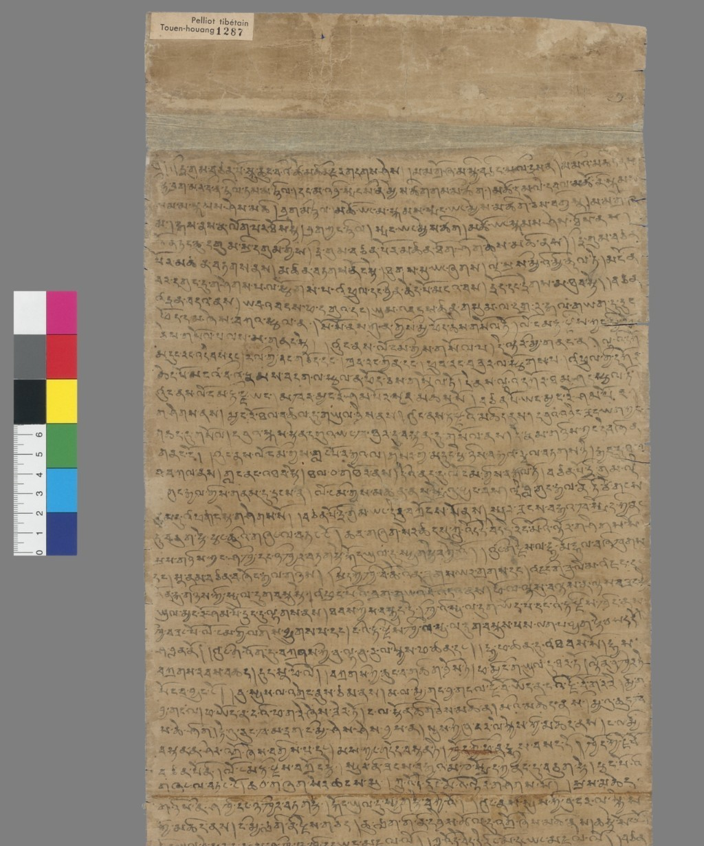 First page of Old Tibetan Chronicle, Pelliot tibétain 1287 at Bibliothèque nationale de France